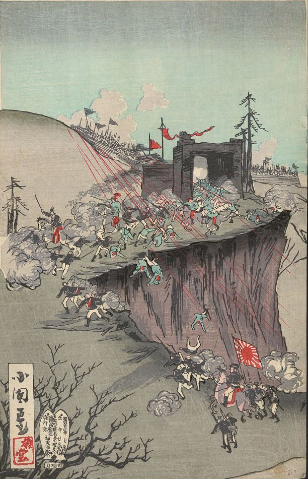 Title: Pyonyan[heijō] rakujō shi wagahei daishōri Title Translation: Our army's great victory at Pyongyang Castle. Creator(s): Utagawa, Kokunimasa, 1874-1944, artist Date Created/Published: 1894. Medium: 1 print (3 sheets) : woodcut, color ; 37 x 24.4 cm (left panel), 36.7 x 24.4 cm (center panel), 36.5 x 24.4 cm (right panel) Summary: Print shows Japanese officers looking at maps and reviewing progress of battle taking place outside the fortress at Pyongyang; two figures entering the scene in the lower half of the right panel may be war journalists or artists. Reproduction Number: LC-DIG-jpd-01543 (digital file from original print of left panel) LC-DIG-jpd-01542 (digital file from original print of center panel) LC-DIG-jpd-01544 (digital file from original print of right panel) Rights Advisory: No known restrictions on publication. Access Advisory: Restricted access; material extremely fragile; please use online digital image. Call Number: FP 2 - JPD, no. 1397 a, b, c (A size) [P&P] Repository: Library of Congress Prints and Photographs Division Washington, D.C. 20540 USA Notes: Title and other descriptive information compiled by Nichibunken-sponsored Edo print specialists in 2005-06. Format: vertical Oban Nishikie triptych. Formerly, nos. 1397, 1398, and 1399 part of same triptych. Forms part of: Japanese prints and drawings (Library of Congress).